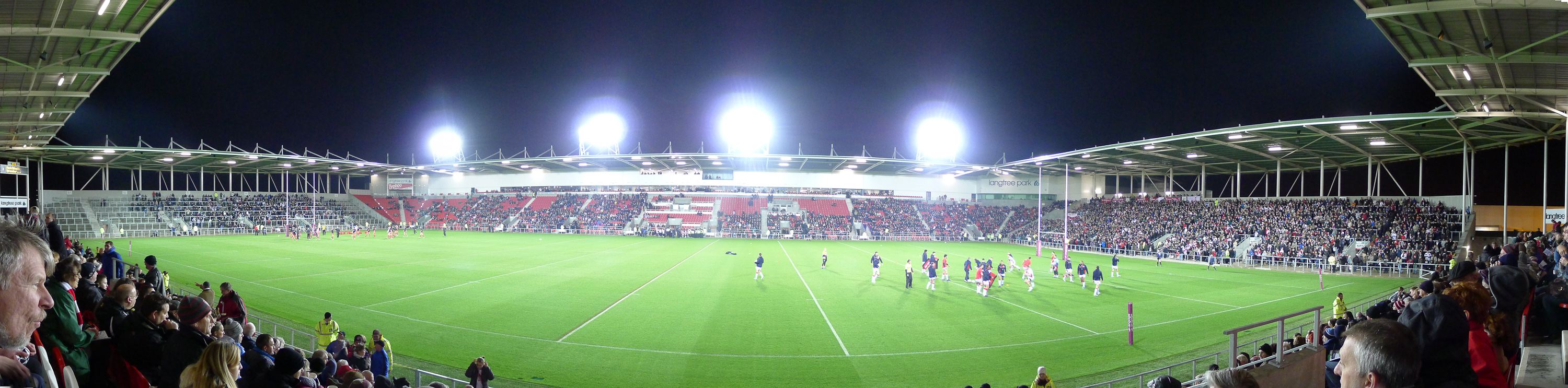 First ever game EVER at St Helens RLFC new stadium at Langtree Park (and we was there). This is a panorama from our seats not long before kick-off. The game was the annual Karalius Cup match against the old rivals, Widnes Vikings. Saints won 42:24 (which is a nicely palindromic score). Four-shot hand-held panorama made with the onboard panorama assist tool and stitched in photoshop. Click on image for a larger version, click on 'View all sizes' and then choose 'original' for the proper screen-stretcher